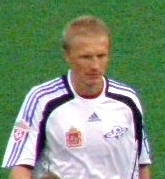 Andriy Husin in action for FC Saturn Ramenskoye